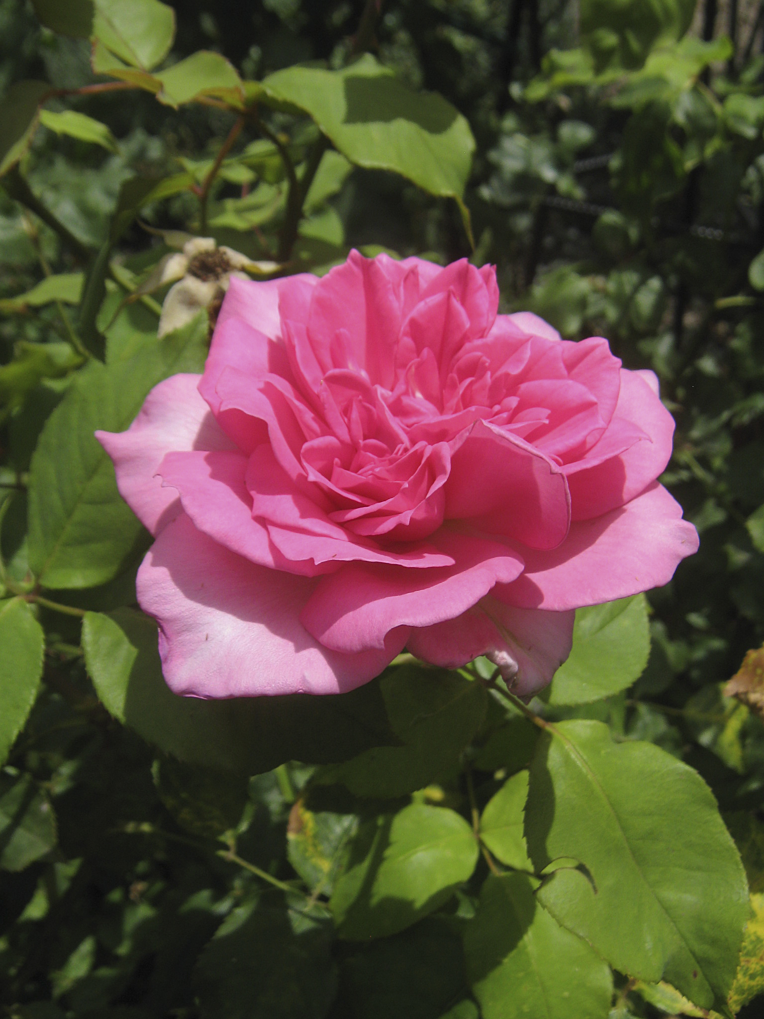 Rose 'Diana Allen' Hybrid Tea by Alister Clark 1939; photographed in the Alister Clark Memorial Rose Garden, Bulla, Victoria